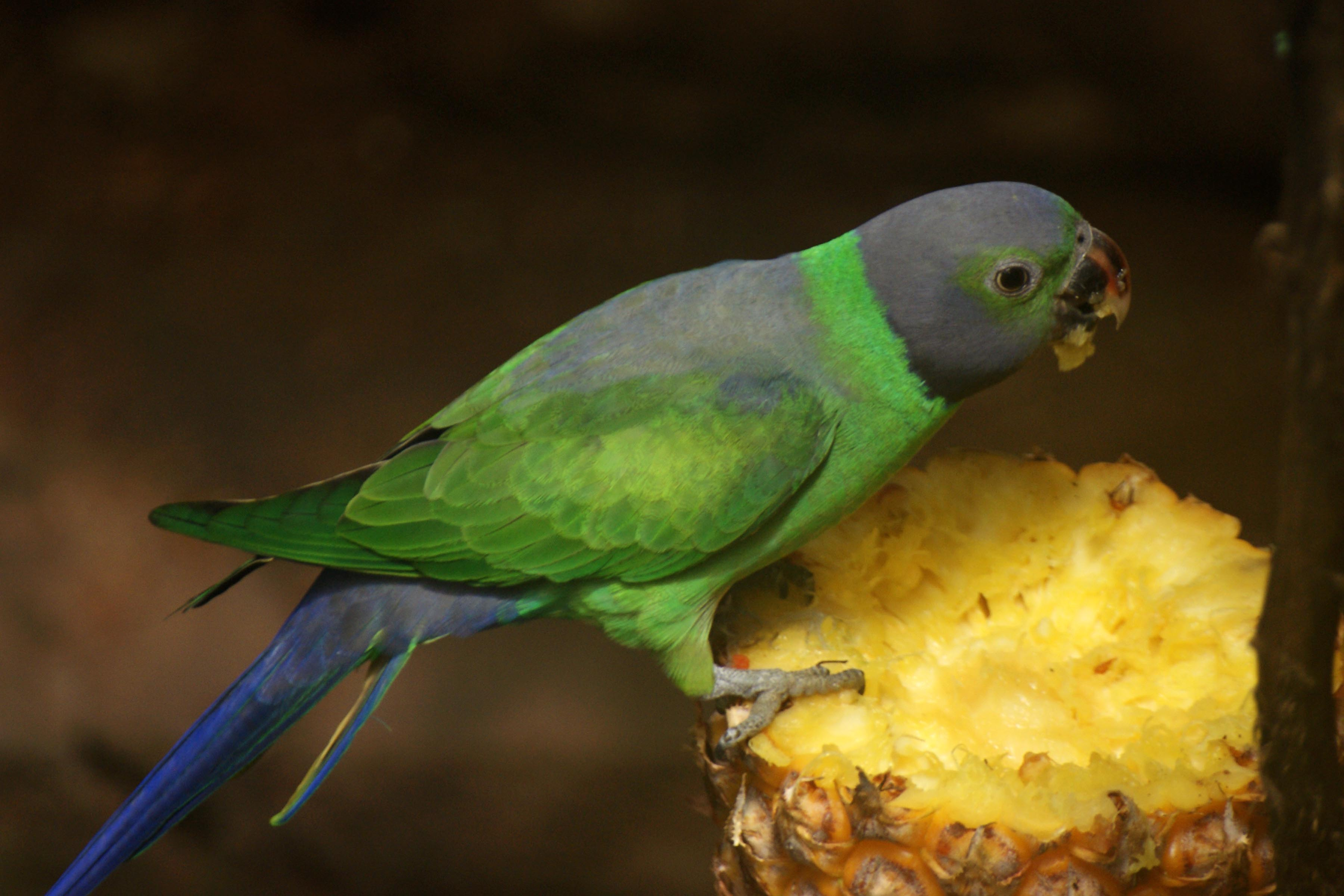 Layard's Parakeet eating fruit in Sri Lanka. Its beak is not fully black, so it is probably a sub-adult female.